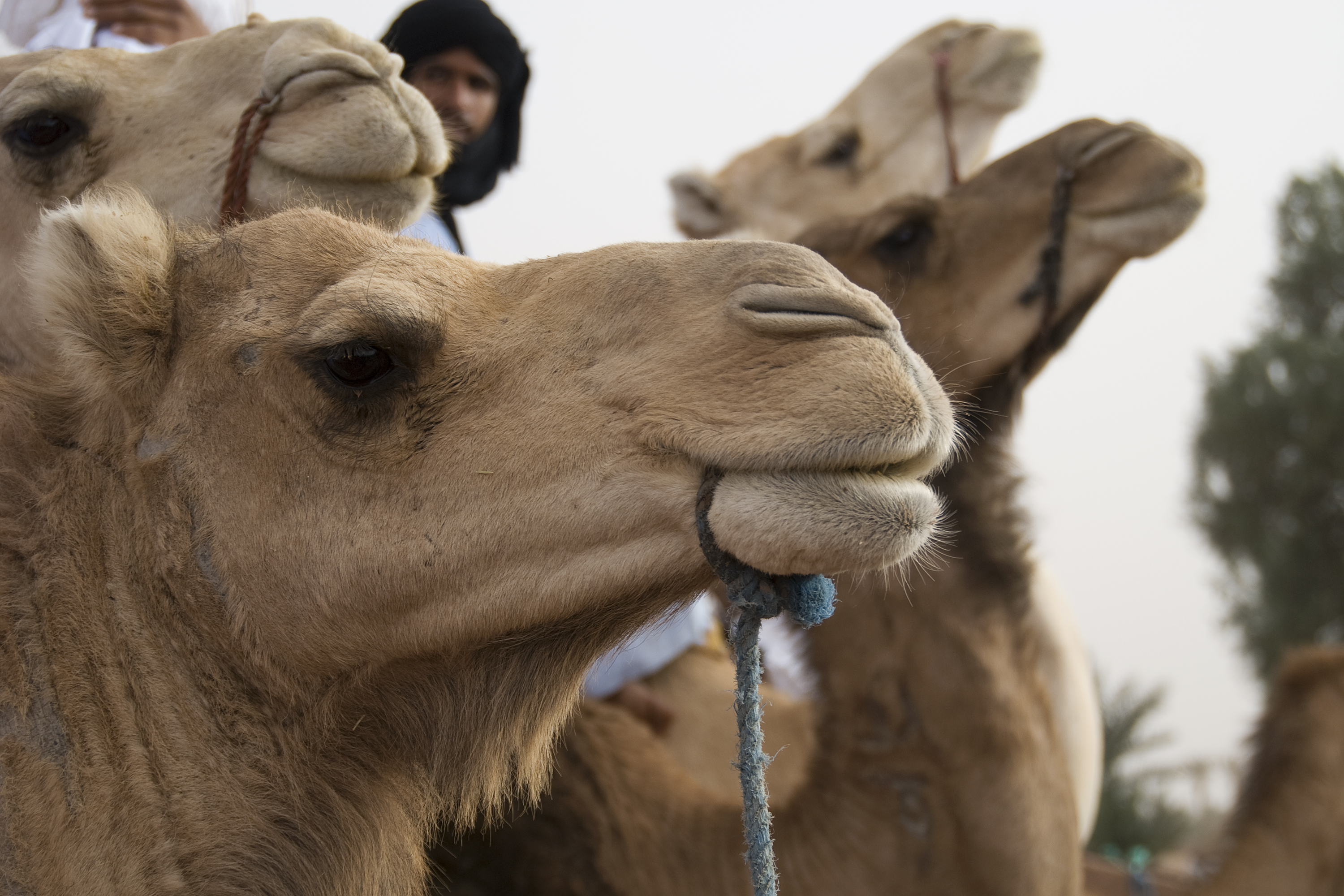 The whole set from Morocco